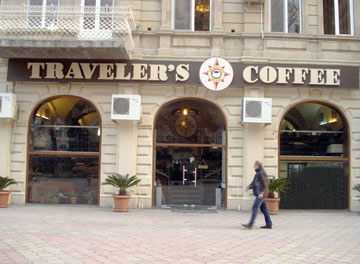 Traveler's Coffee in Baku Тоҷикӣ: Кофейня Traveler's Coffee в Баку